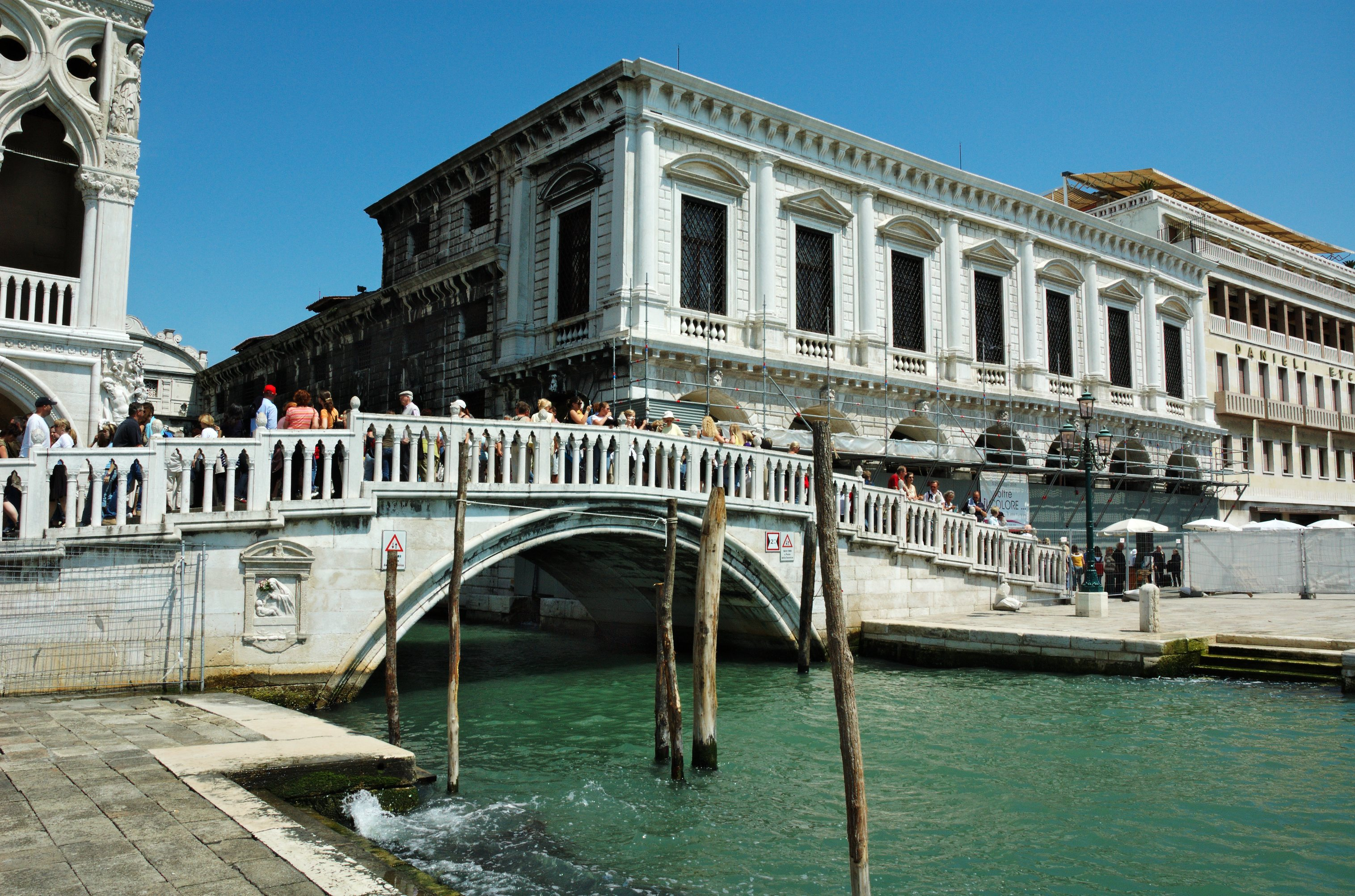 Ponte della Paglia, Venice.